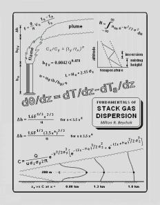 This is my personal scan of the cover of the book "Fundamentals of Stack Dispersion". I am the author and publisher of the book. I also the illustrator of the book cover.